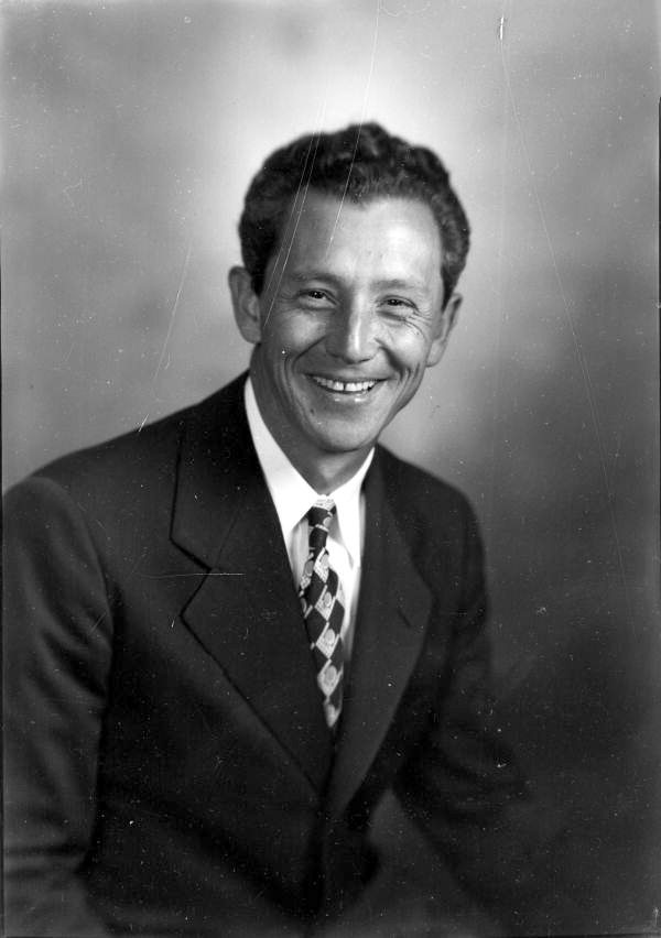 Official portrait of LeRoy Collins, former Governor of Florida